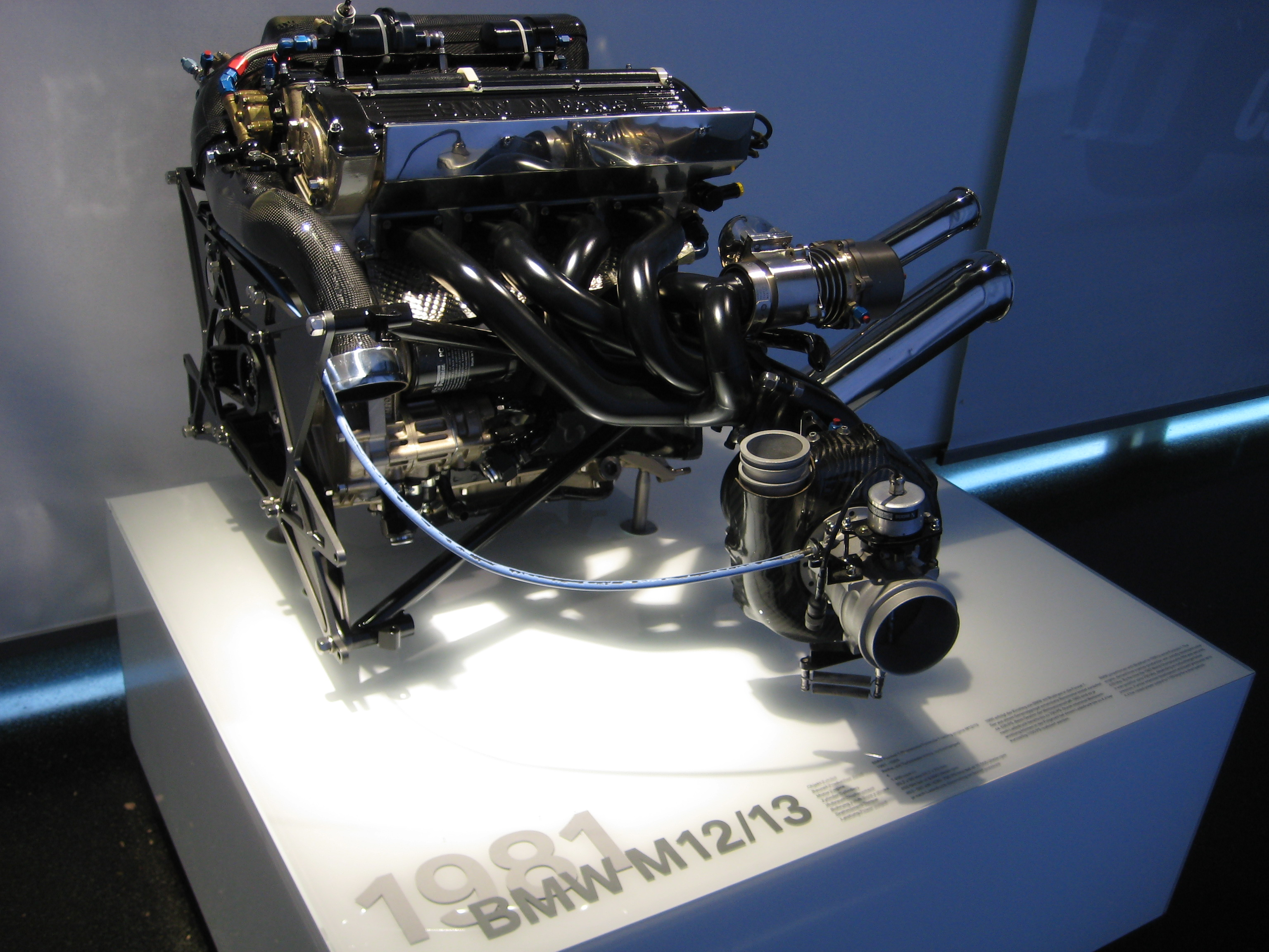 BMW F1 Engine M12/13 with Kugelfischer Injection max. boost 5.6 bar 1450hp